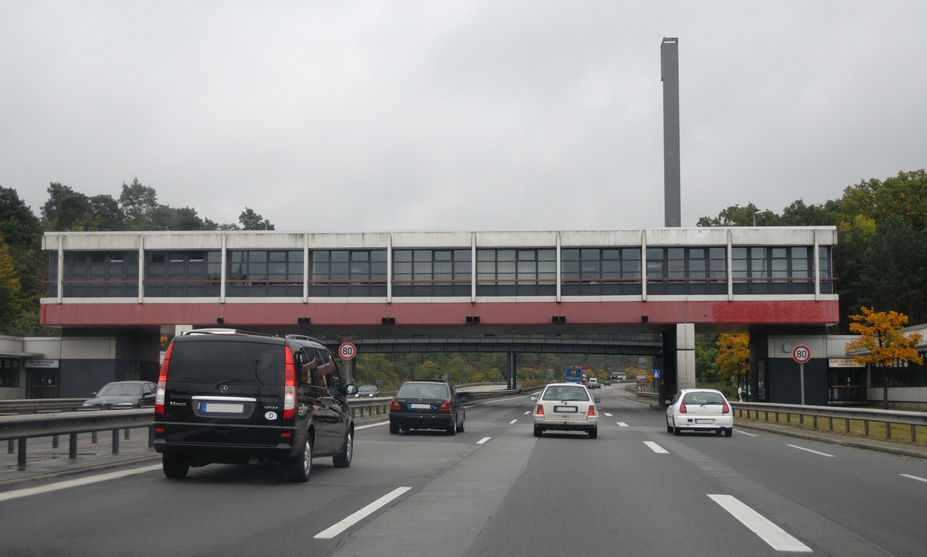 Bridge building of former Checkpoints Bravo at Berlin Dreilinden-Drewitz. Road shot from A 115, view from north.